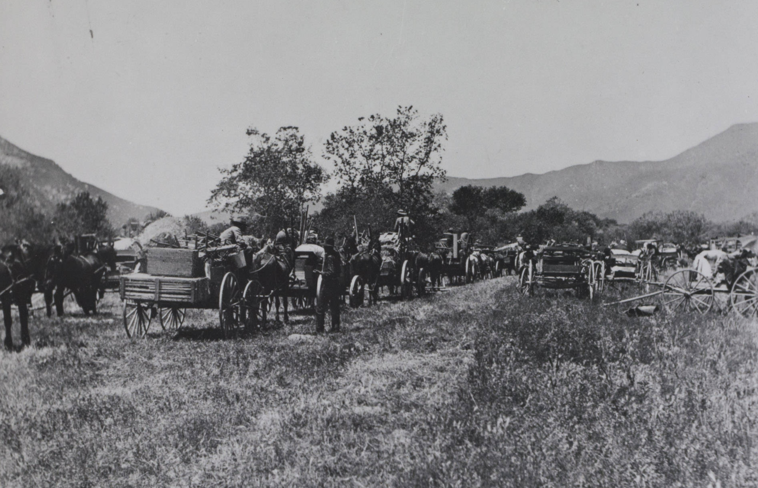 Forced relocation of Cupeño people from Warner's Ranch to Pala